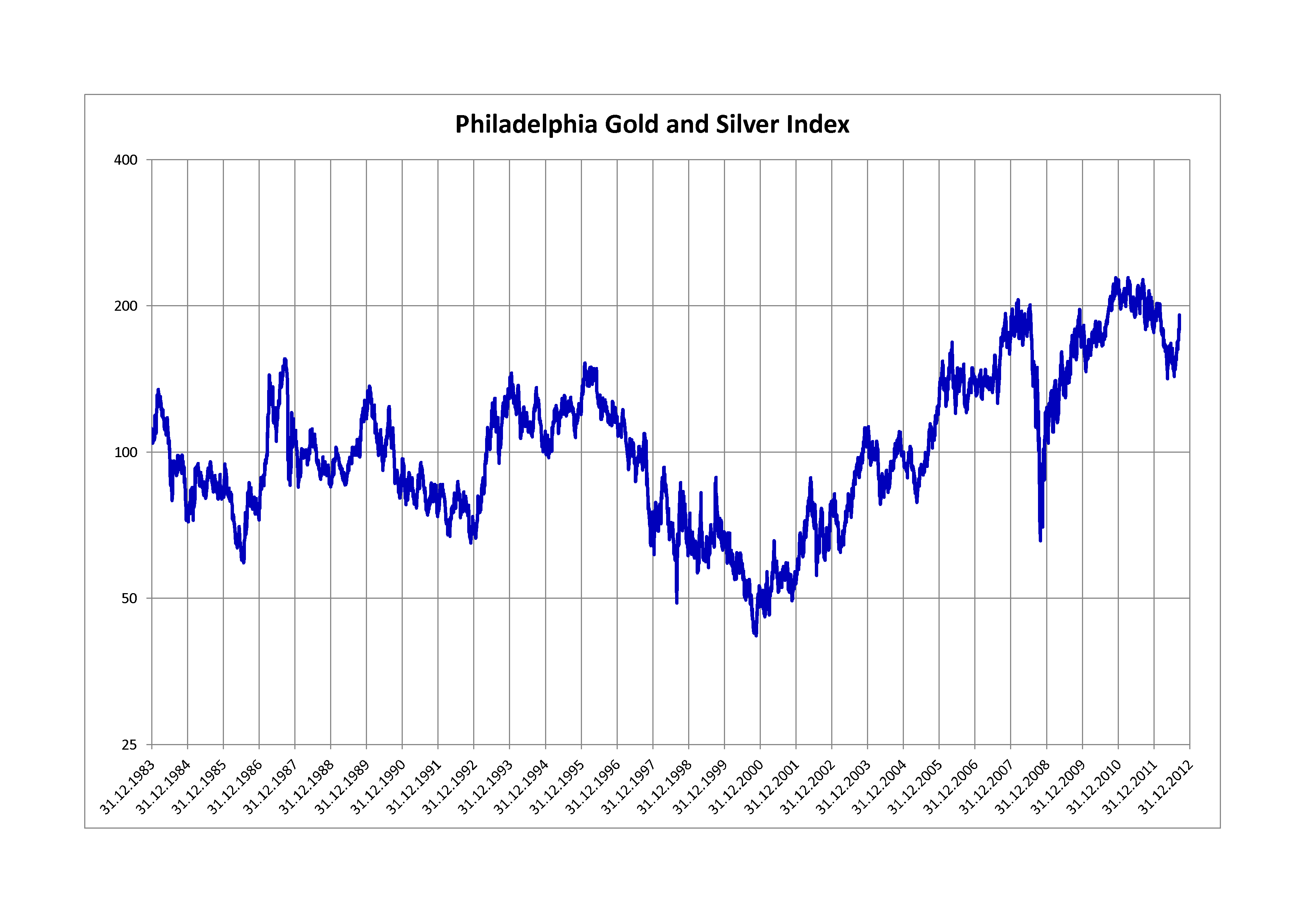 Philadelphia Gold and Silver Index from December 1983 to September 2012 (daily closings)